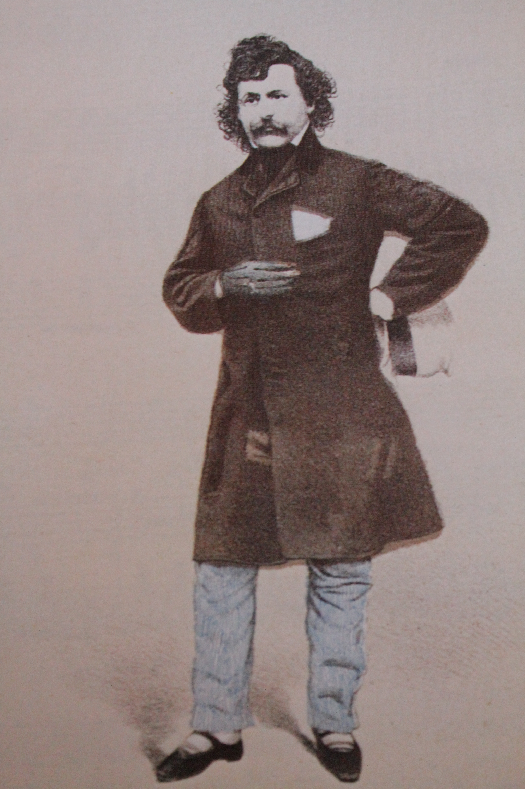 Arthur Lloyd from the cover of sheet music "Brown the Tragedian"